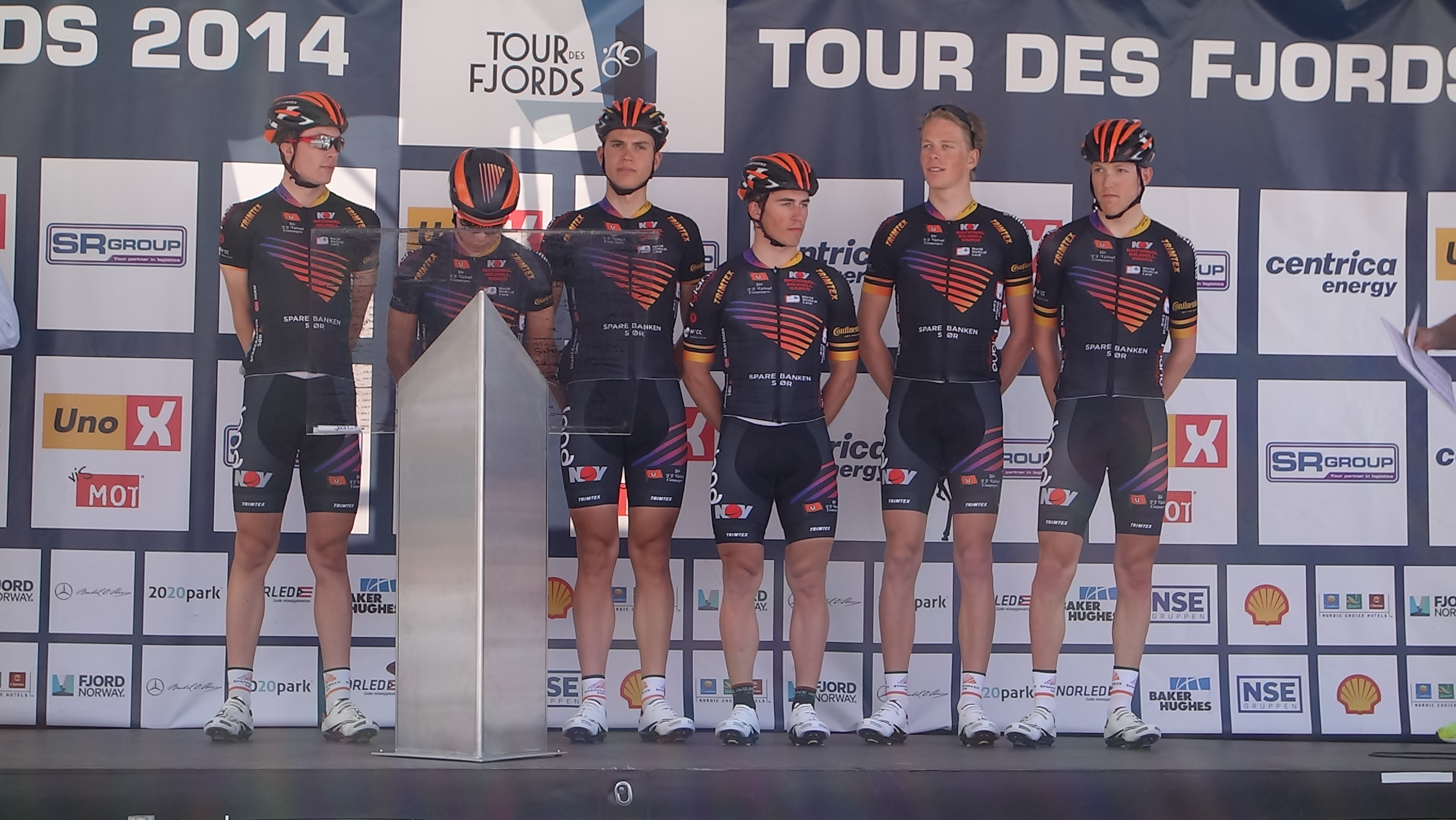 Team Sparebanken Sør in Bergen before stage 1 of the 2014 Tour des Fjords.